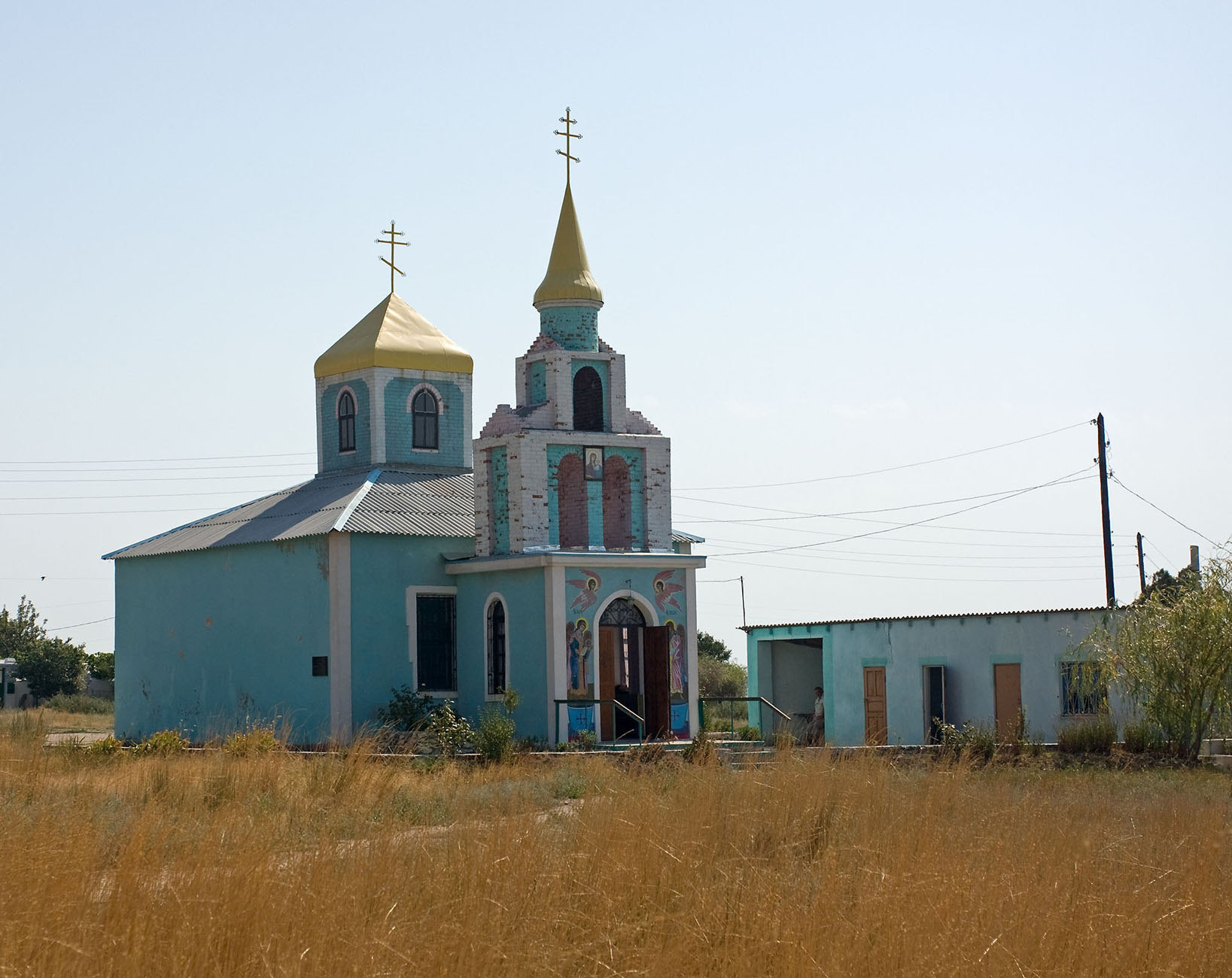 Church in Gleyki settlement near Kerch (Ukraine)